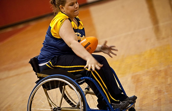 Athlete using a manual wheelchair during an American Wheelchair Football Game.